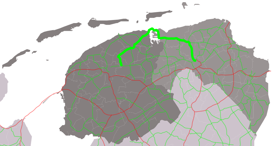 Map of Friesland and Groningen with Dutch provincial road no. 361